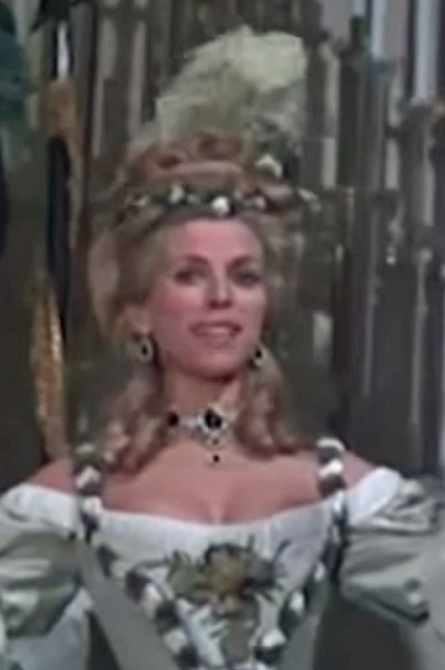 Billie Whitelaw in trailer for "Start the Revolution Without Me" (1970)